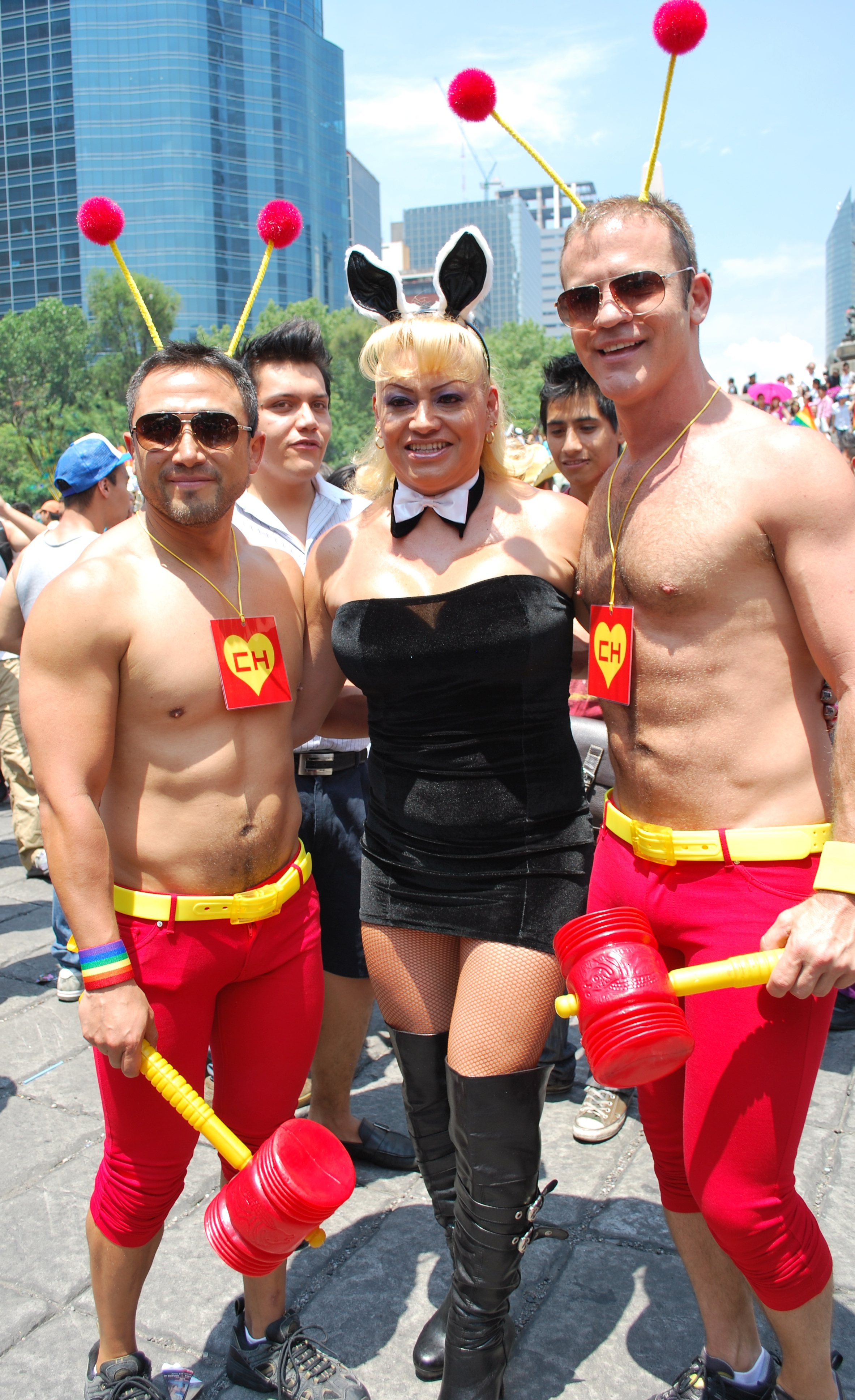 Participants in the 2012 Marcha Gay in Mexico City